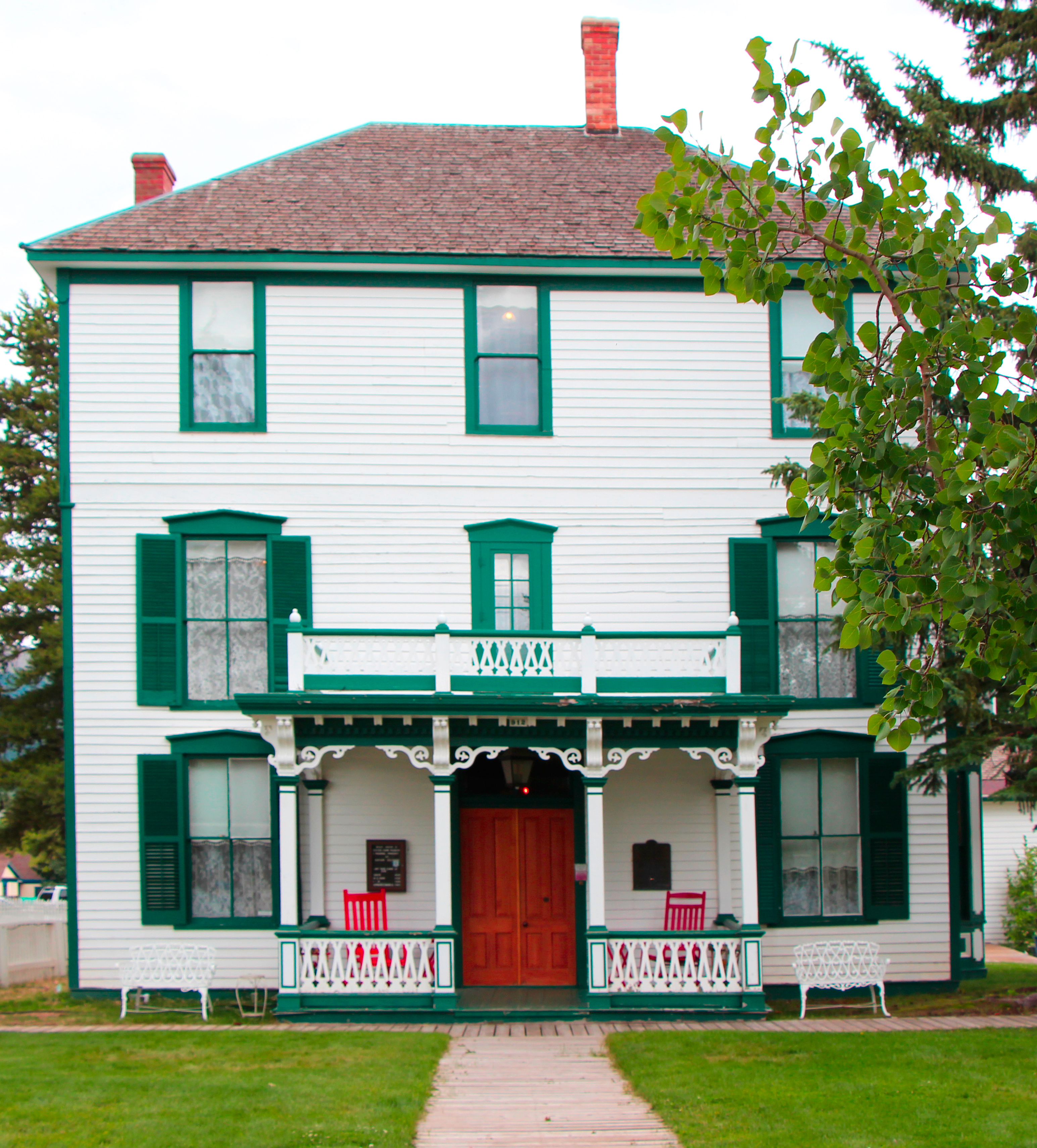 The Healy House, in Leadville, Colorado.